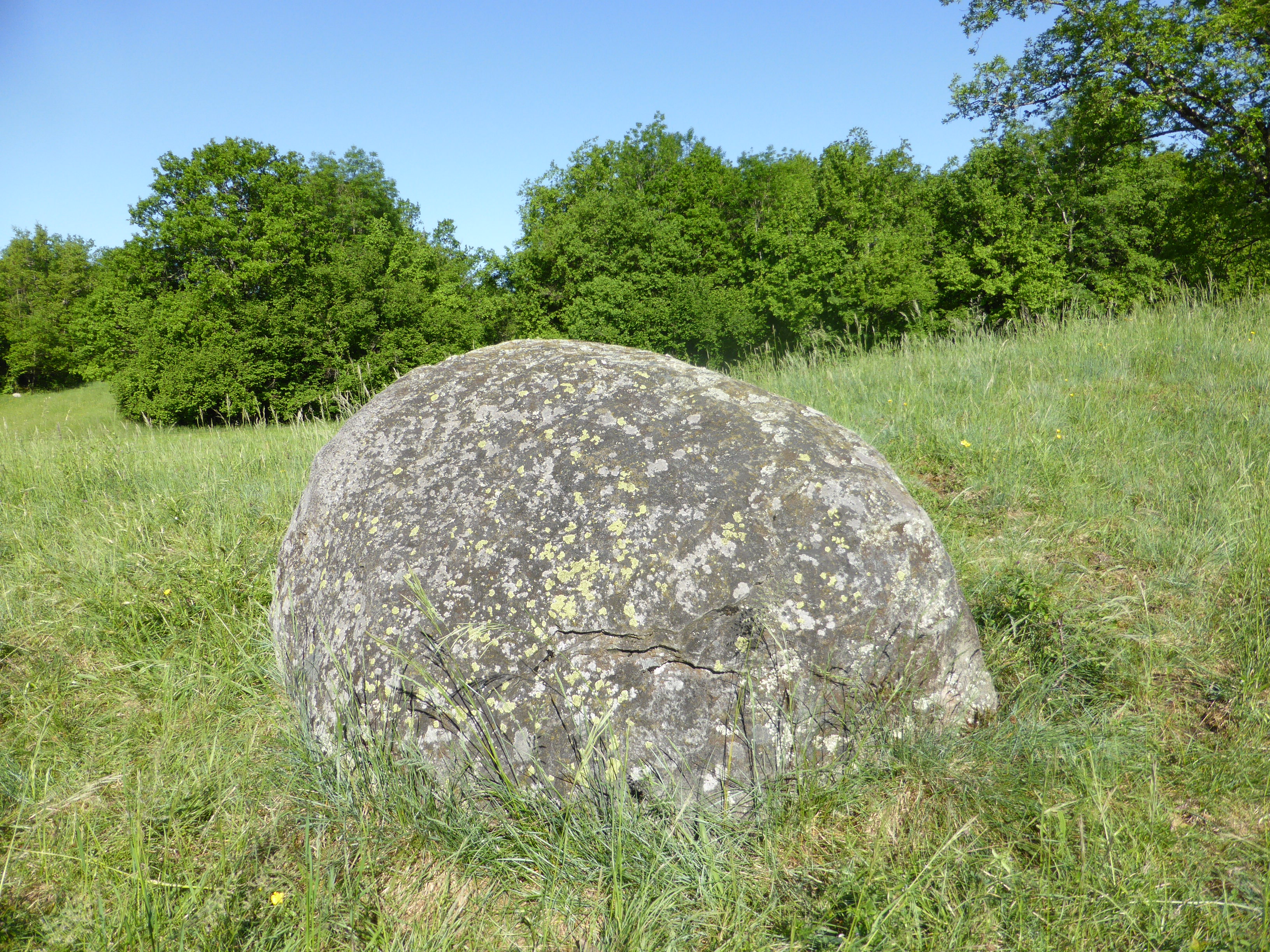 cup-marked stone of La Guettaz, Billième, Savoie, Rhône-Alpes, France.